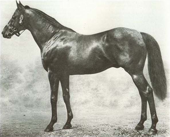 Photograph of 1888 Derby winner Ayshire. Unknown author. Circa 1888.